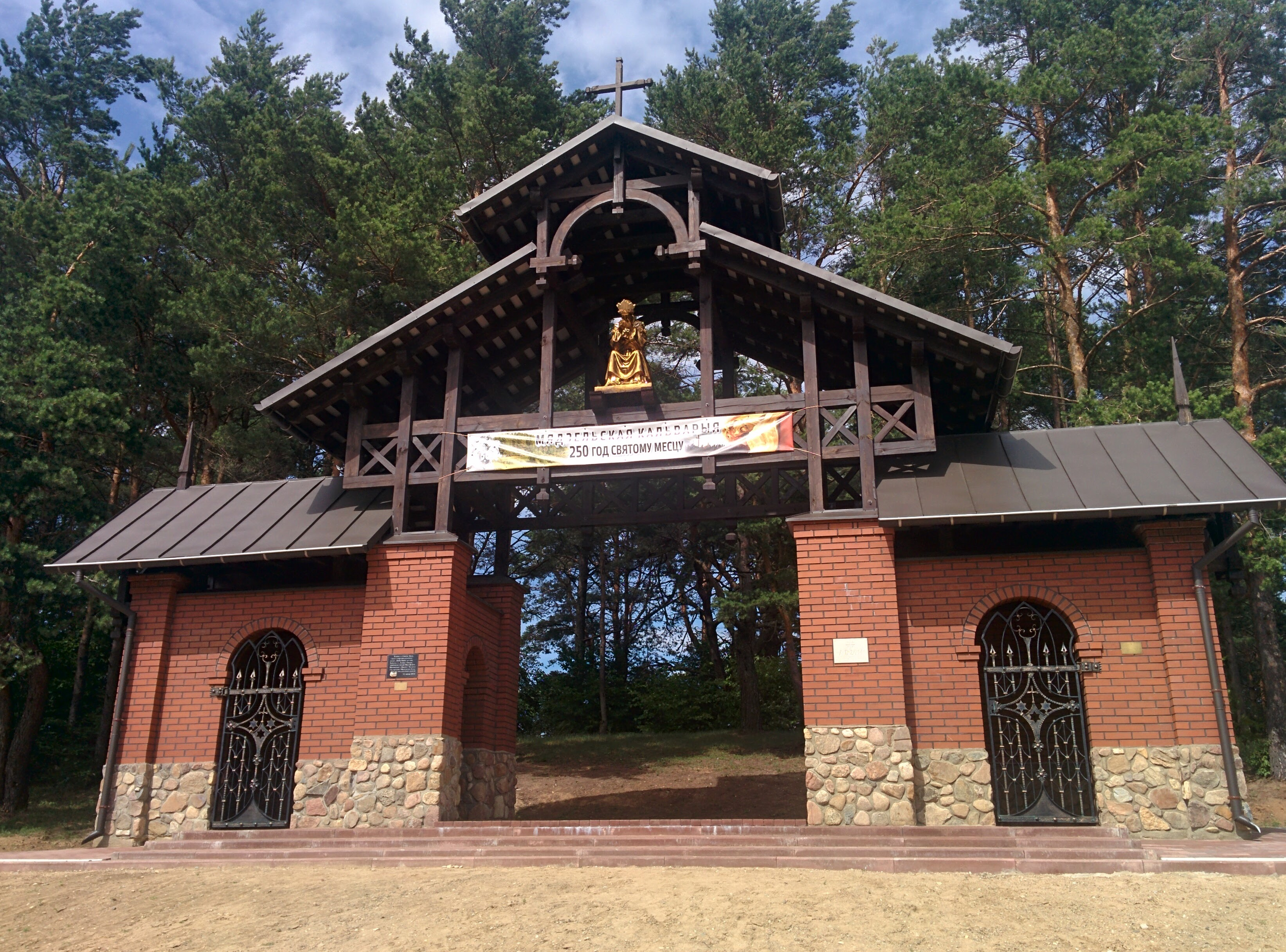 Miadziel